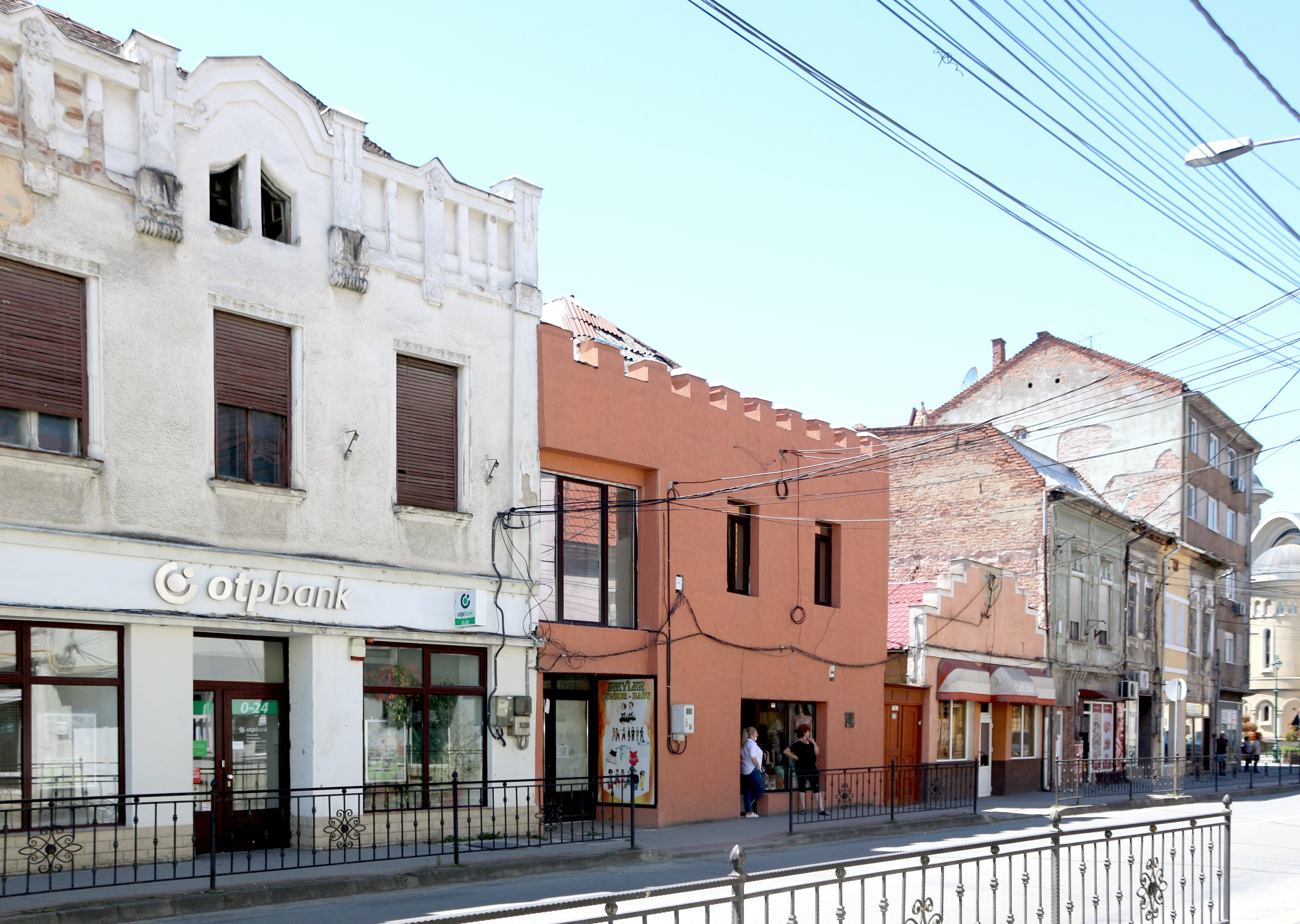 Urban ensemble Mihai Viteazul II, Mihai Viteazul St., Caransebeș, Romania, built 18th century